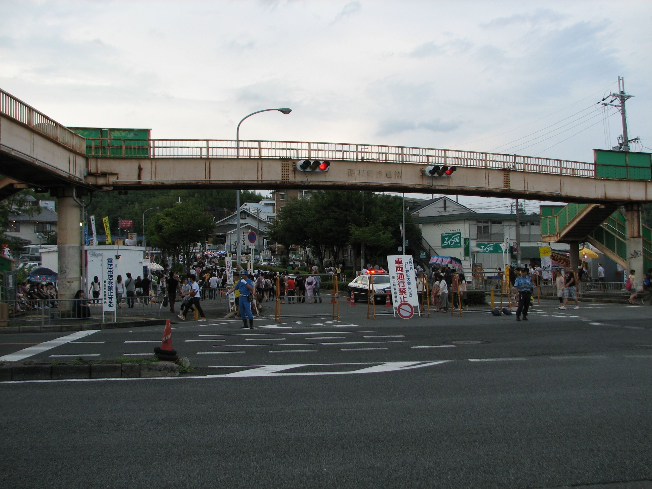 Shōwachō-kita in Tondabayashi, Osaka, Japan.